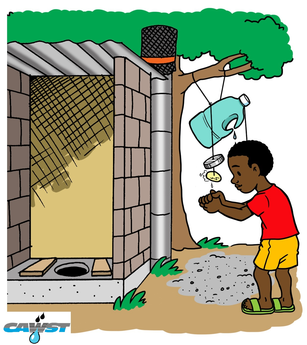 Poster for raising awareness about Hand washing in communities.